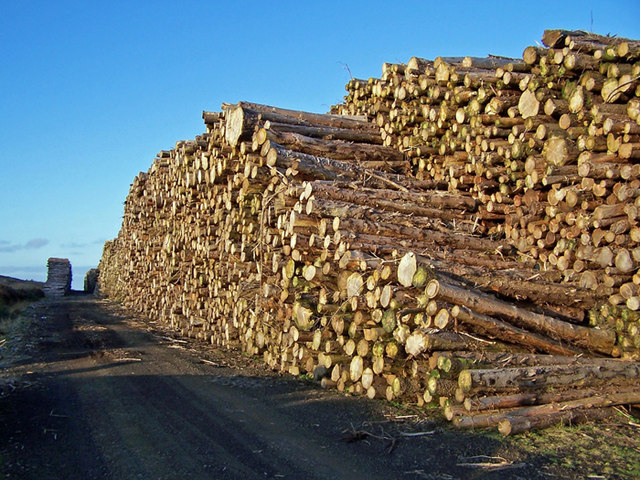 Stacked logs Huge stacks of cut timber stand alongside the forestry road into Waternish Forest. They seem to have remained untouched since John Allan was here in June (1357203).